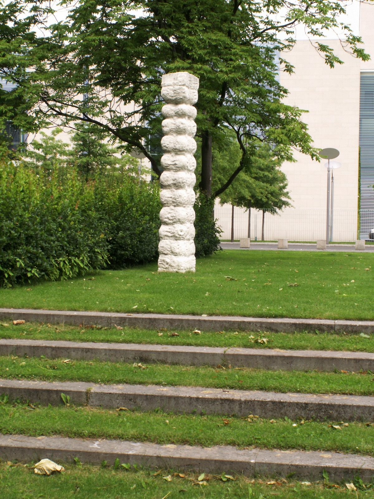 Erich Reischke, Germany, Berlin, „Symposion europaeischer Bildhauer“, 1961/63, untitled